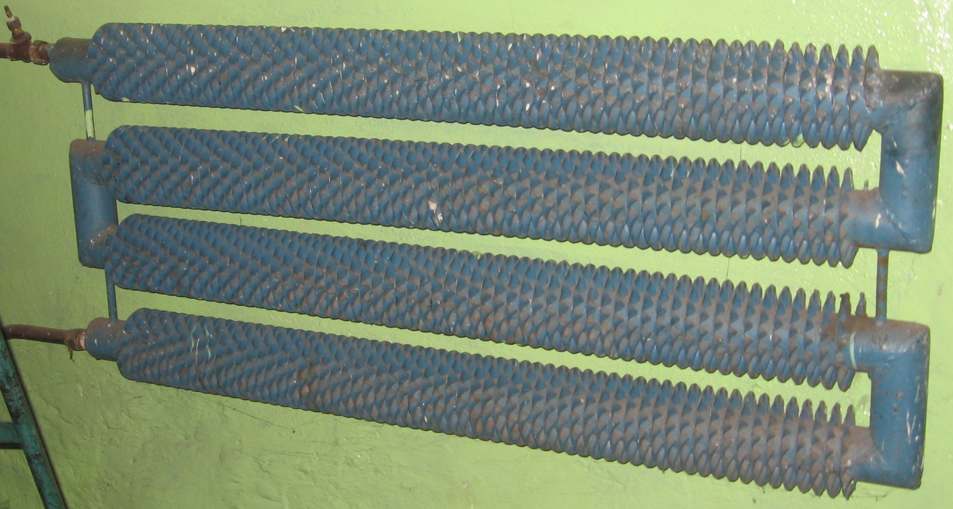 Favier radiator, a finned tube radiator, a pipe-shaped heating radiator with helical-shaped flange.